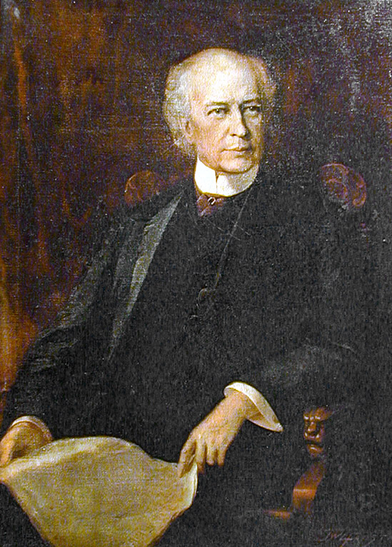 Portrait of Sir Wilfrid Laurier.